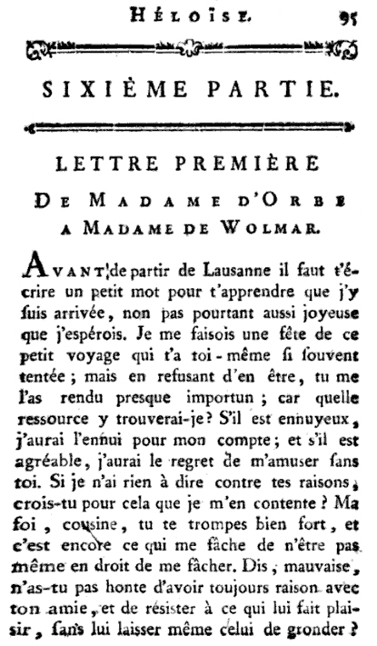 Title page Julie, or the New Heloise by Jean-Jacques Rousseau ((1712-1778)